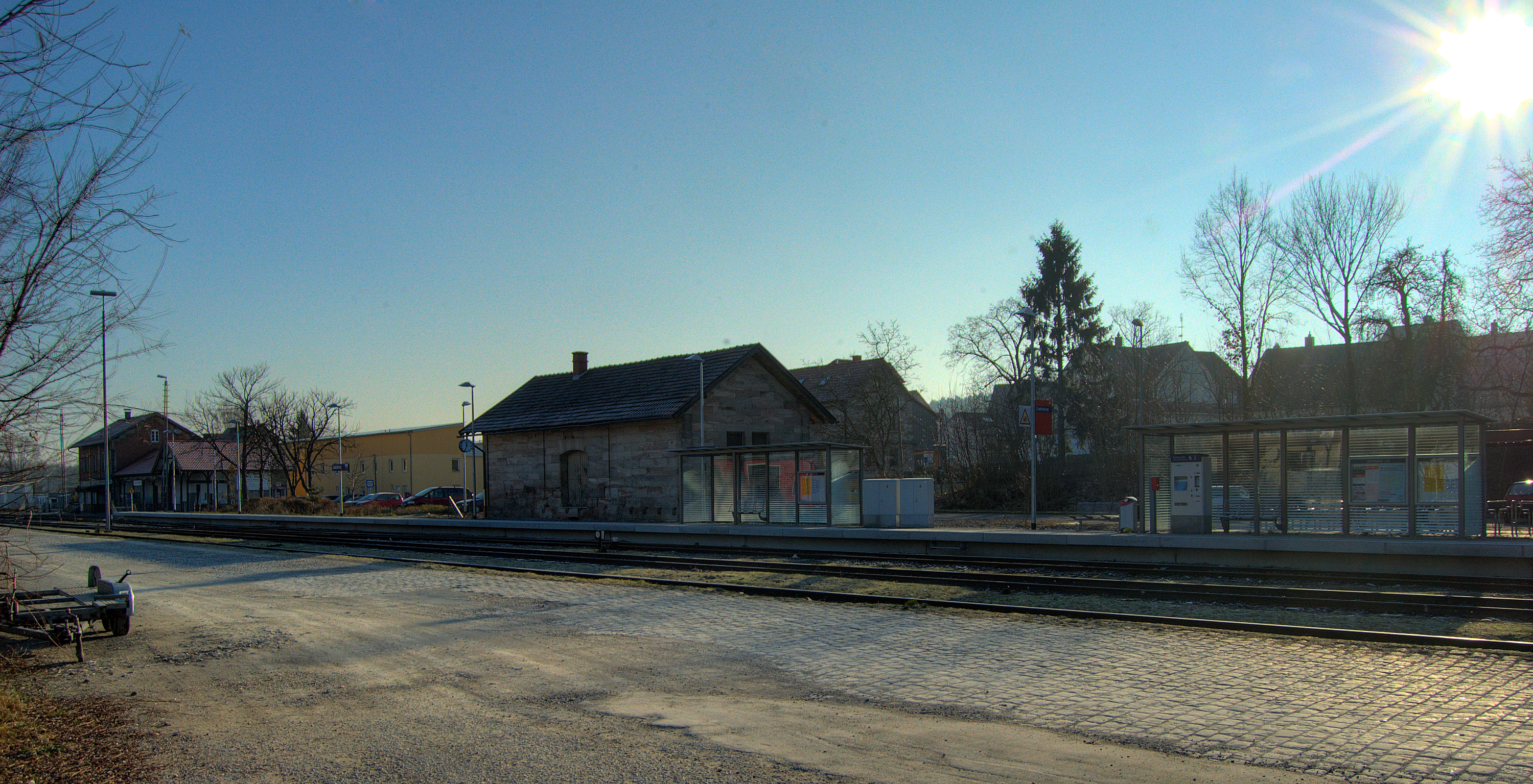 Railwaystation in Cadolzburg, Germany